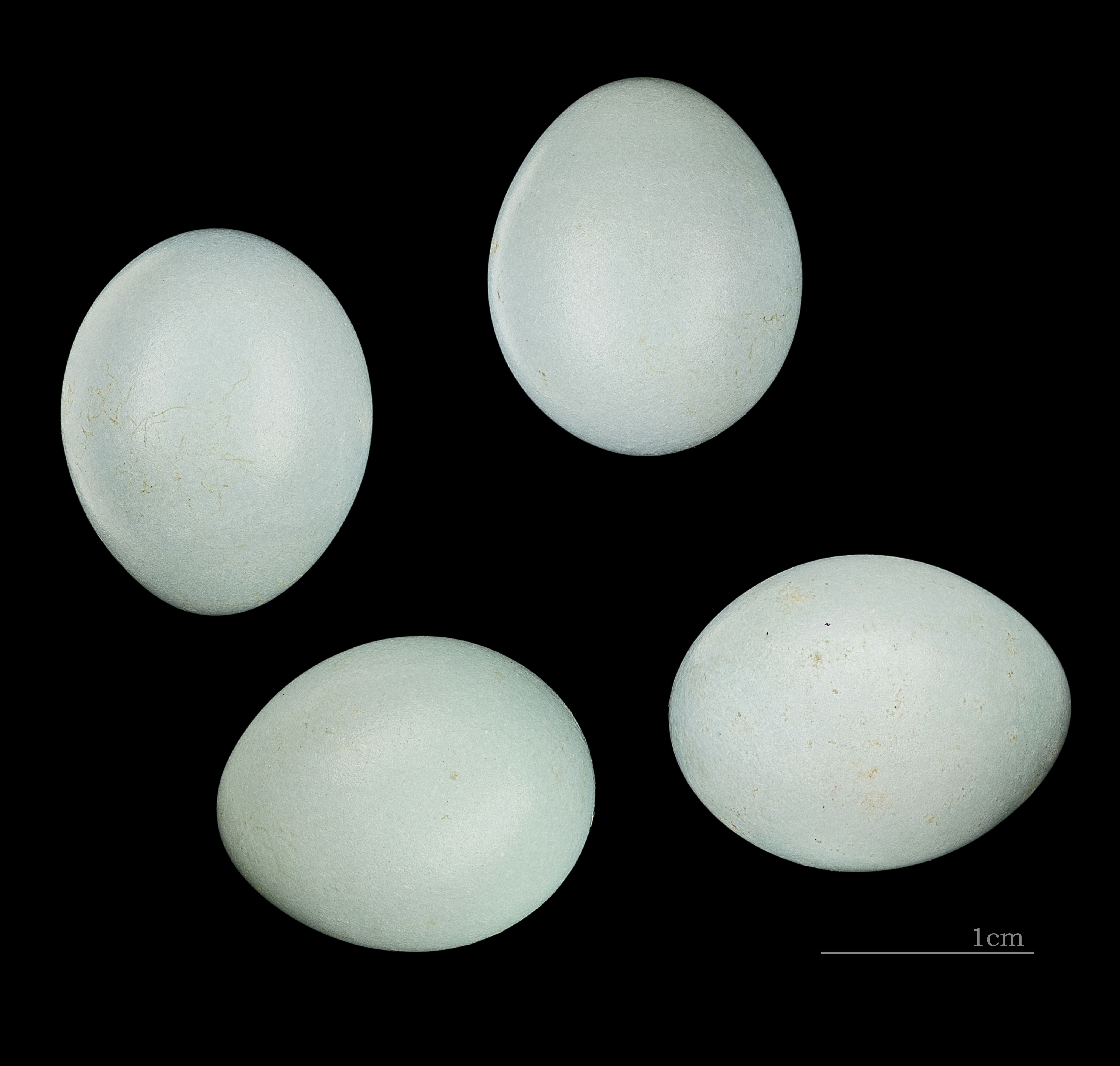 Egg of Moussier's Redstart Collection of Henri Heim de Balsac / Jacques Perrin de Brichambaut.